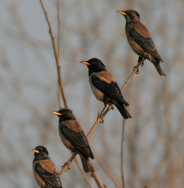 Rosy Starling, or Rose-coloured Starling Sturnus roseus near Hyderabad, India.